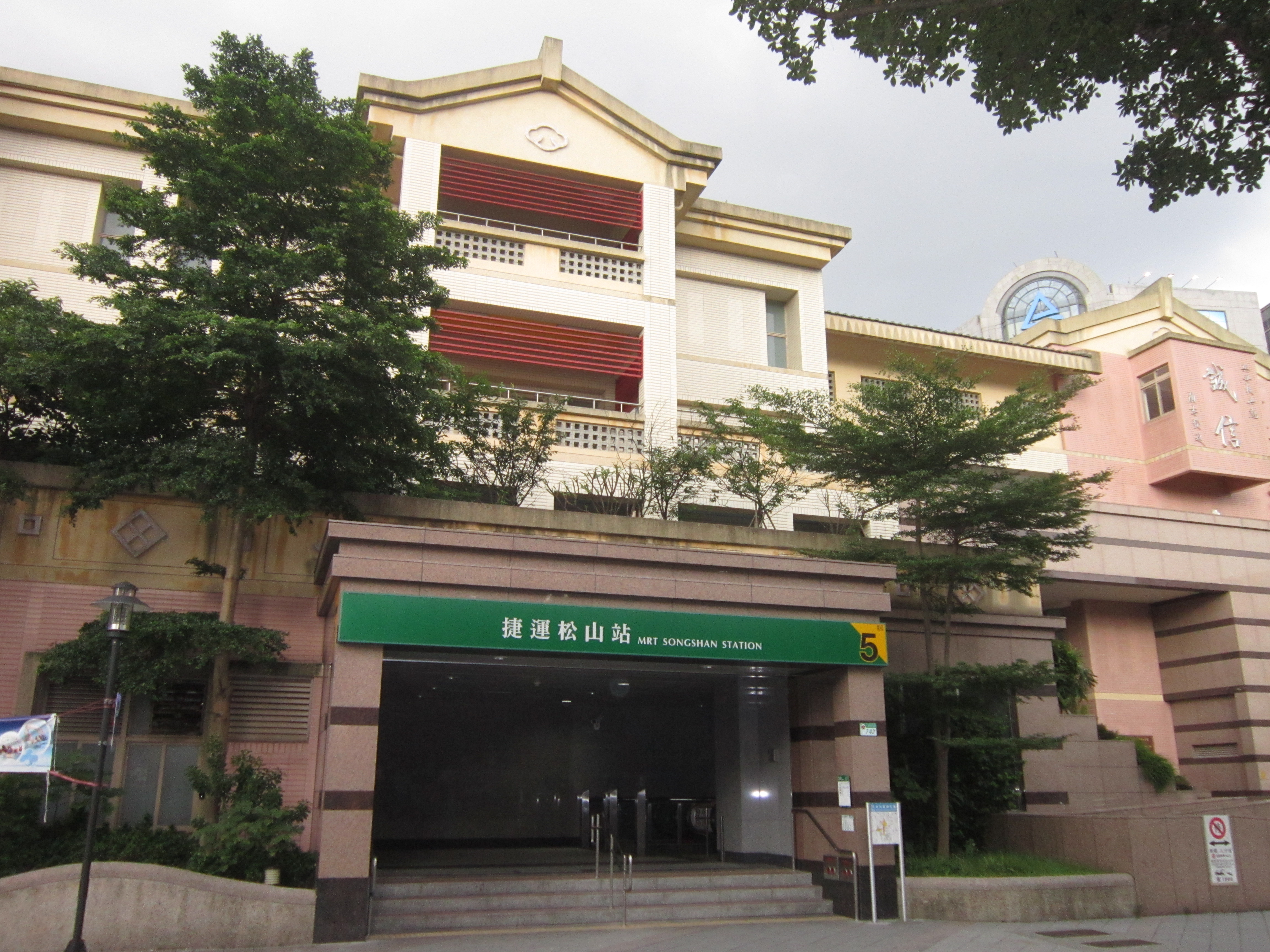 Exit 5, Songshan Station, Taipei MRT. 中文（台灣）: 台北捷運松山站五號出口，和松山國小教學大樓共構。